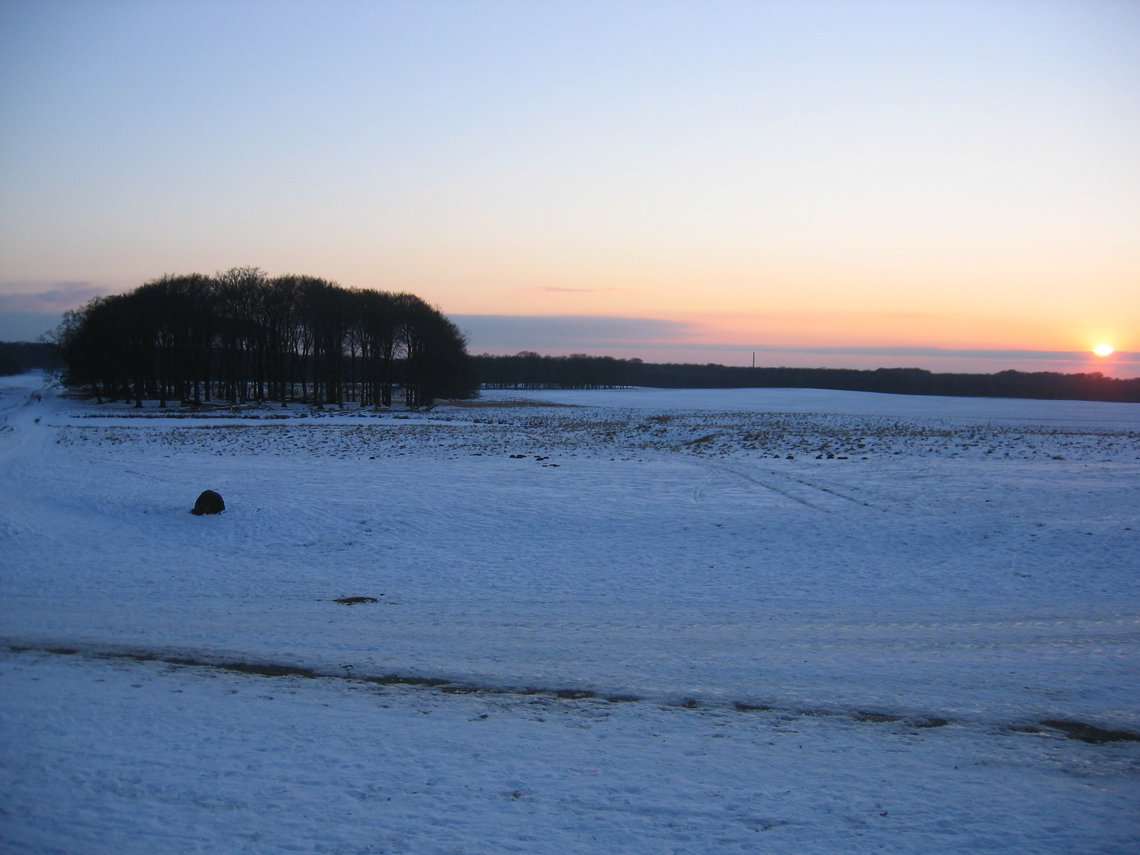 Eremitageplain, Jægersborg Deer Park, Denmark.